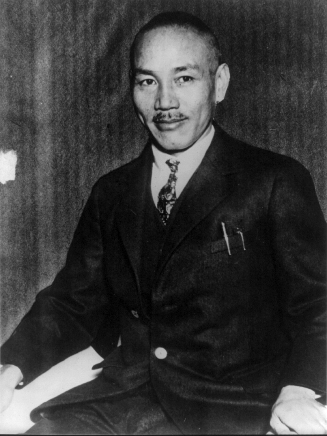 Photo of General Chiang Kai-shek, half-length, seated, facing left. No. S/104X1010.